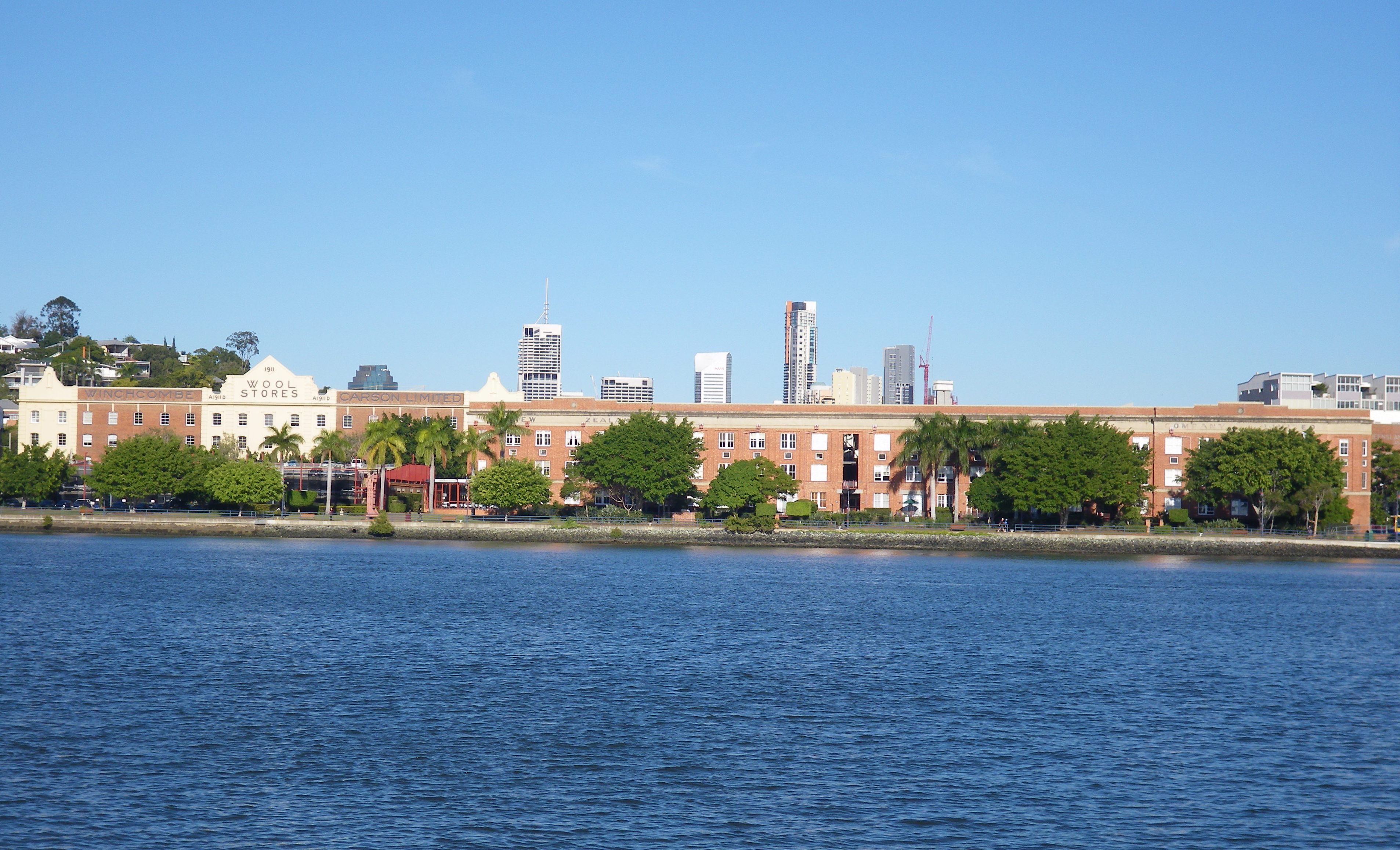 Teneriffe Wharves, the first URB residential complex to be built along the Teneriffe waterfront, comprises a refurbished woolstore, new apartments, businesses, restaurants, cafes, public plaza, pocket park and riverfront promenade. The 1926 Mactaggarts Woolstore was the first woolstore conversion in the area and is part of the historic Teneriffe precinct which comprises the largest collection of portside woolstores in Australia.